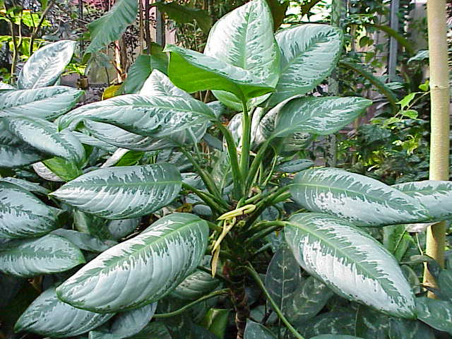 Species: Aglaonema nitidum Family: Araceae Image No. 3